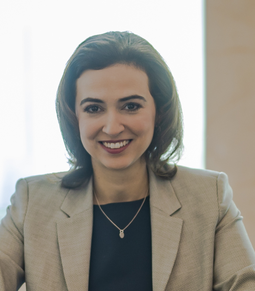 Fotocredit: BKA